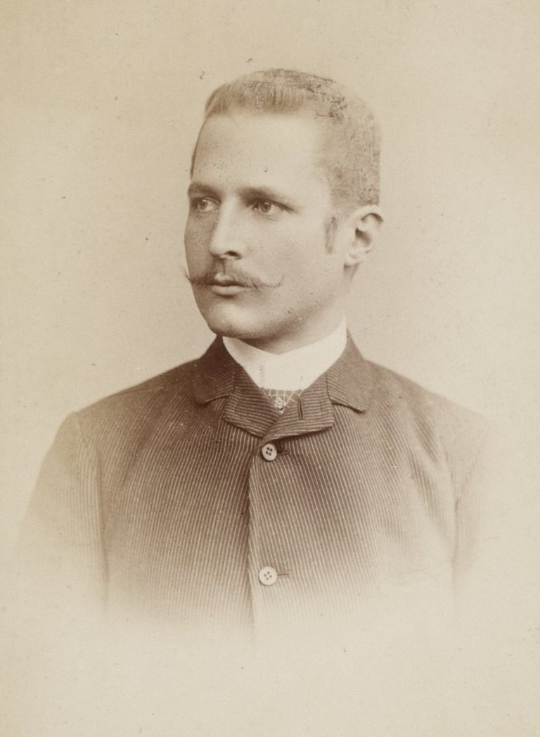 German geologist Hans Meyer